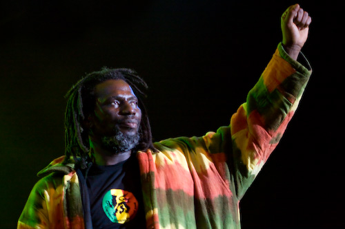 Tiken Jah Fakoly, Festival Africajarc (Cajarc, France) 2008